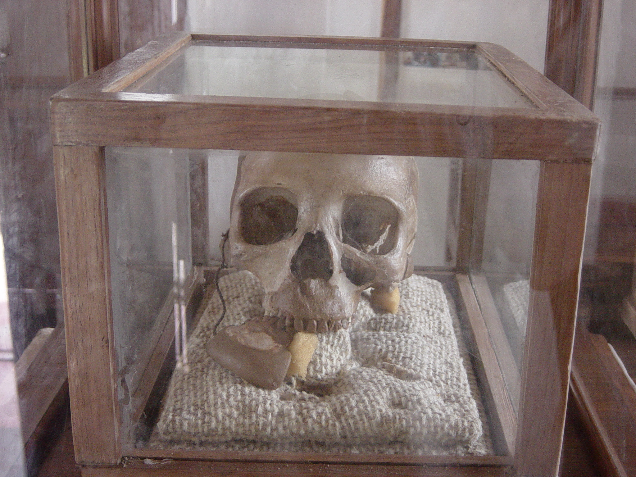 Skull of Chief Mkwawa on display in the Mkwawa Memorial Museum, Kalenga, Iringa. Taken February/2005.